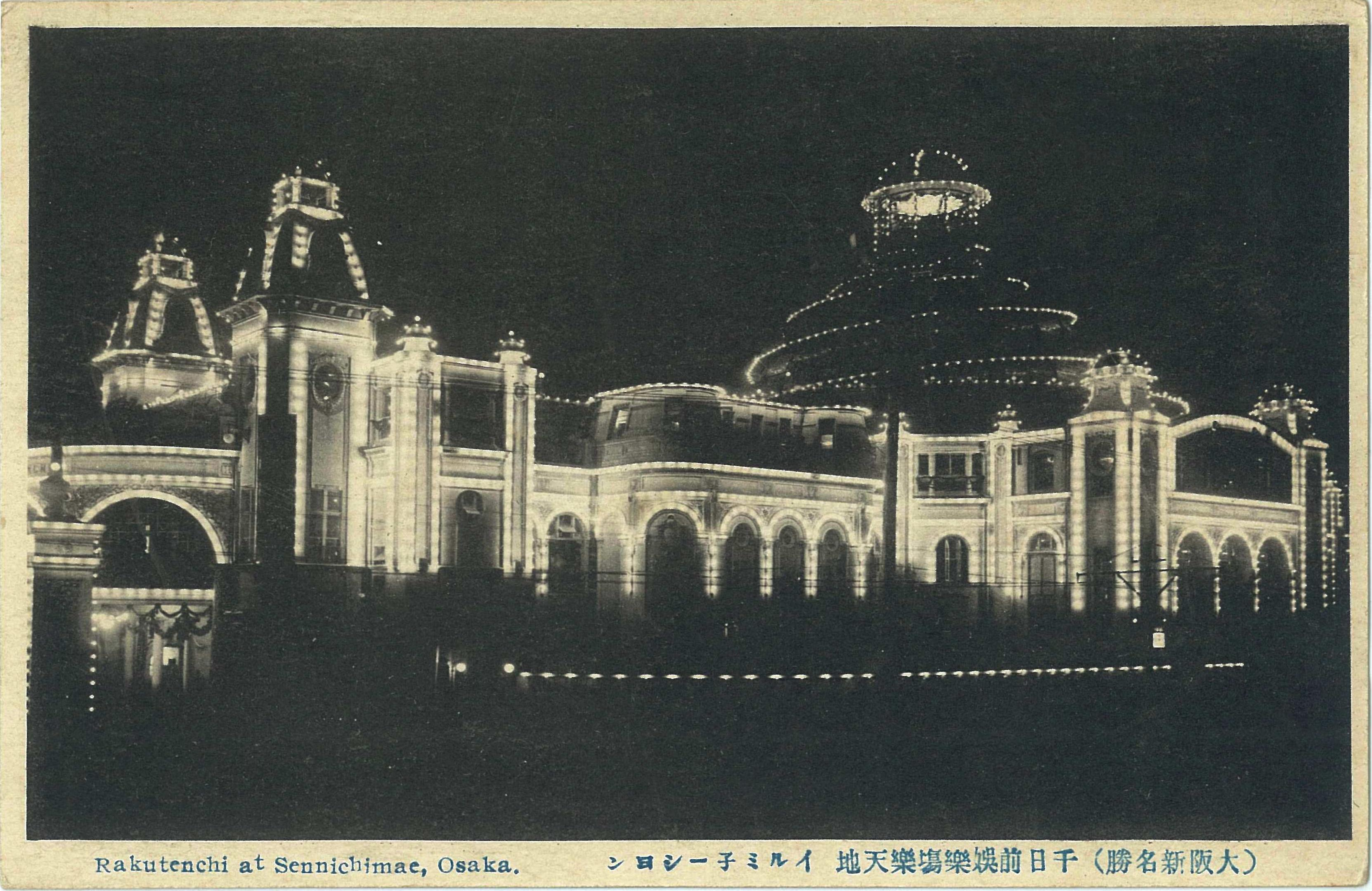 Night illumination of the Rakutenchi theatre (1914 - 1930)